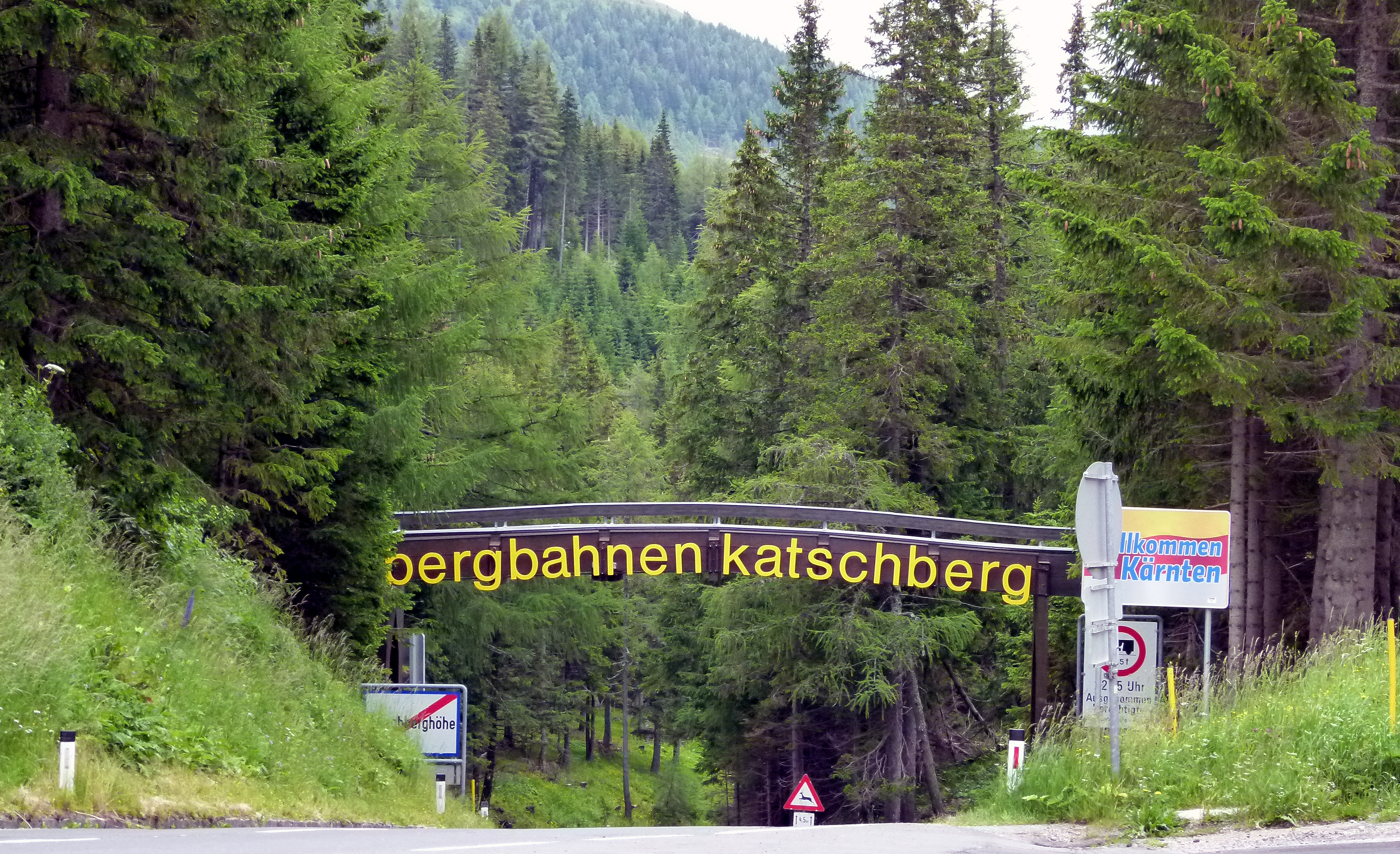 Katschberg Pass, Austria